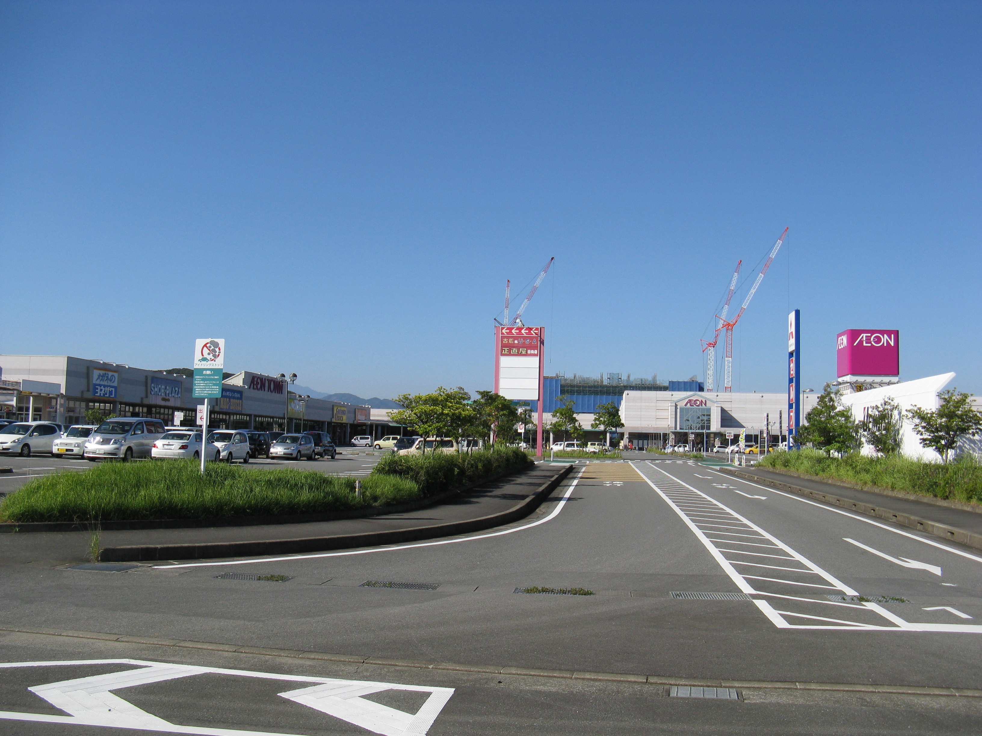 ÆON TOWN HYUGA 2011